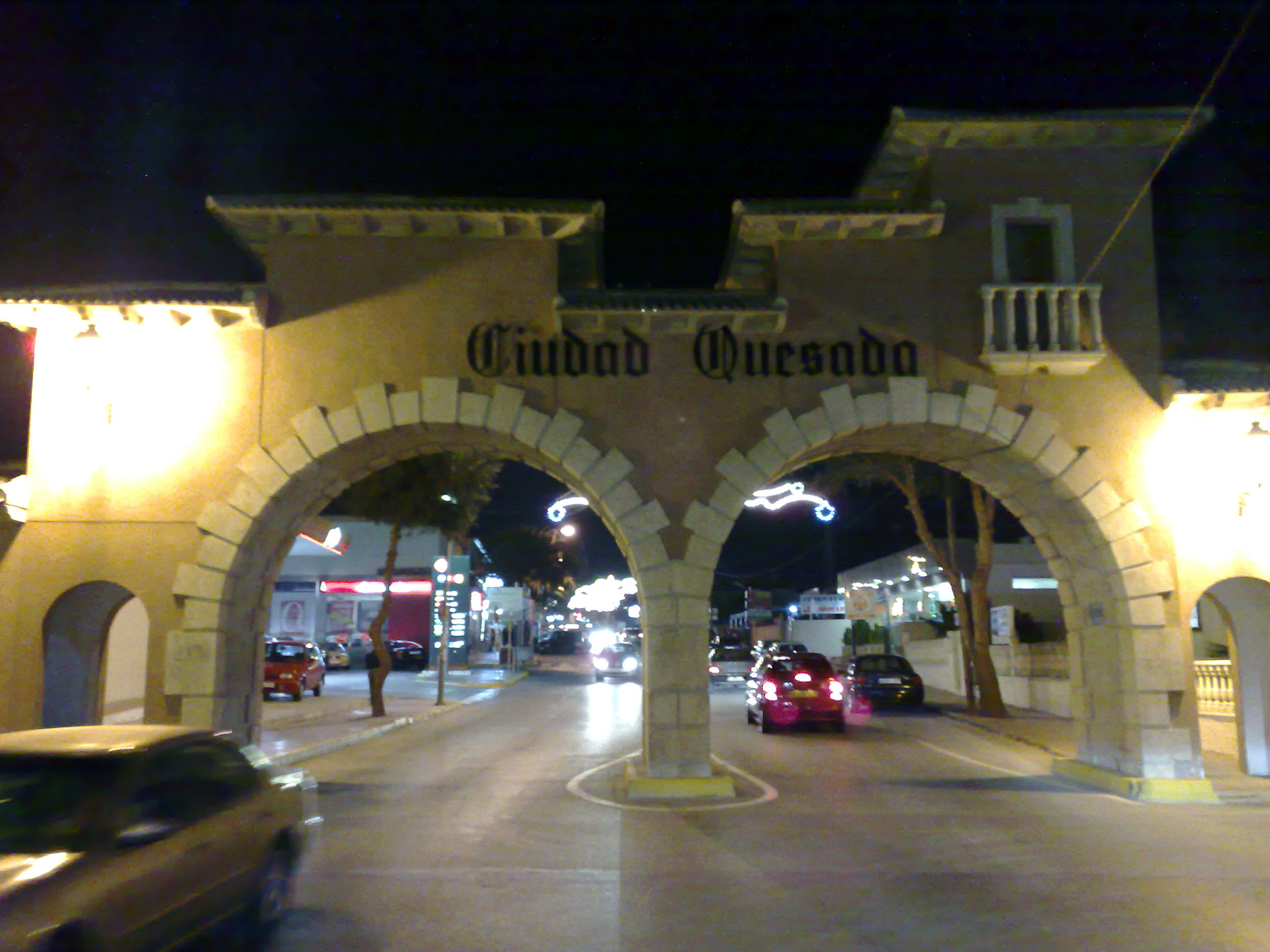 The Arches marking the entrance to Ciduad Quesada, Rojales.